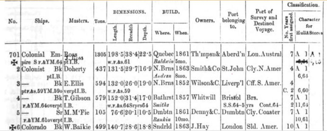 Extract of the Colonist (1861) Lloyd's Register of British and Foreign Shipping 1867 journal entry